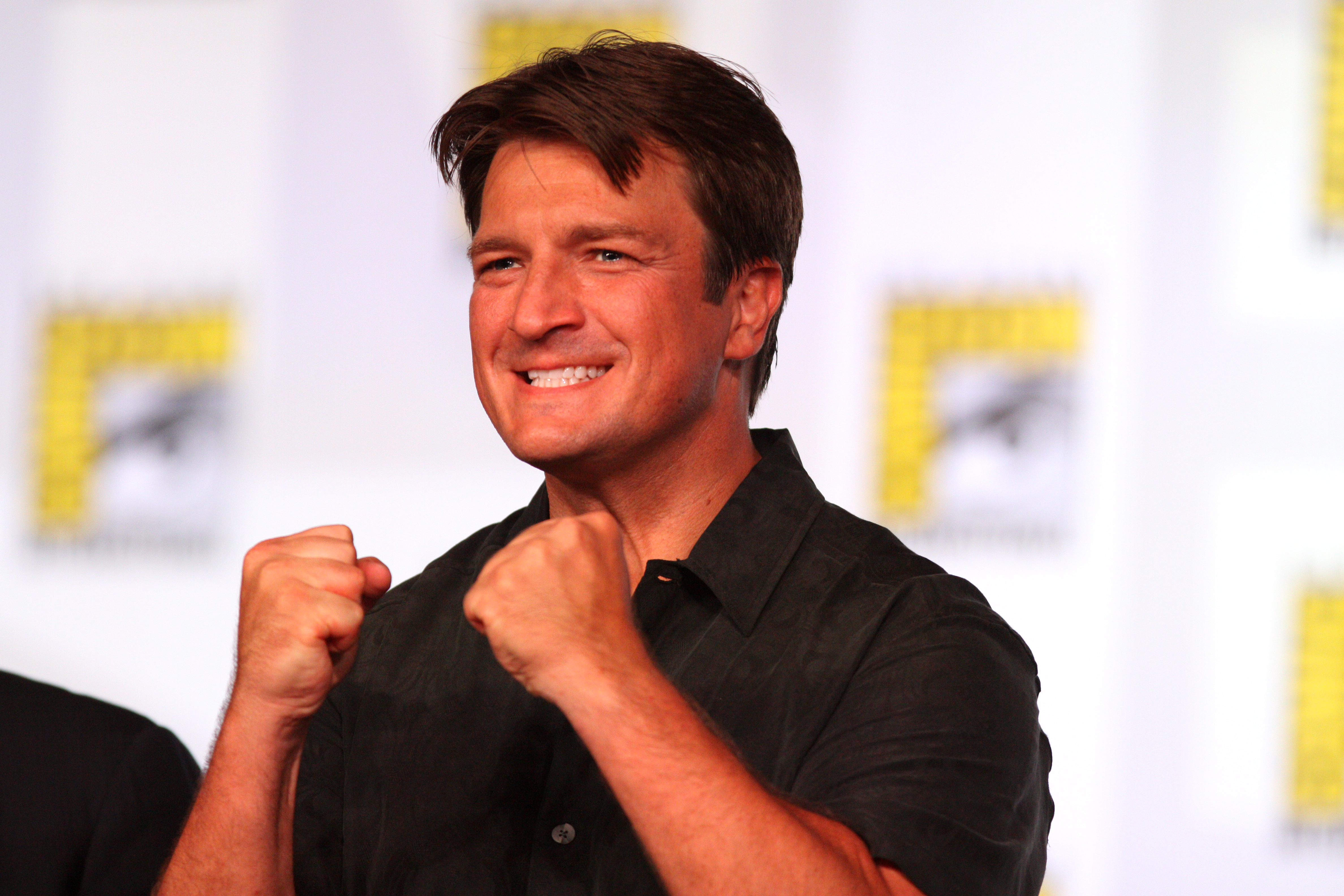 Nathan Fillion speaking at the 2012 San Diego Comic-Con International in San Diego, California.